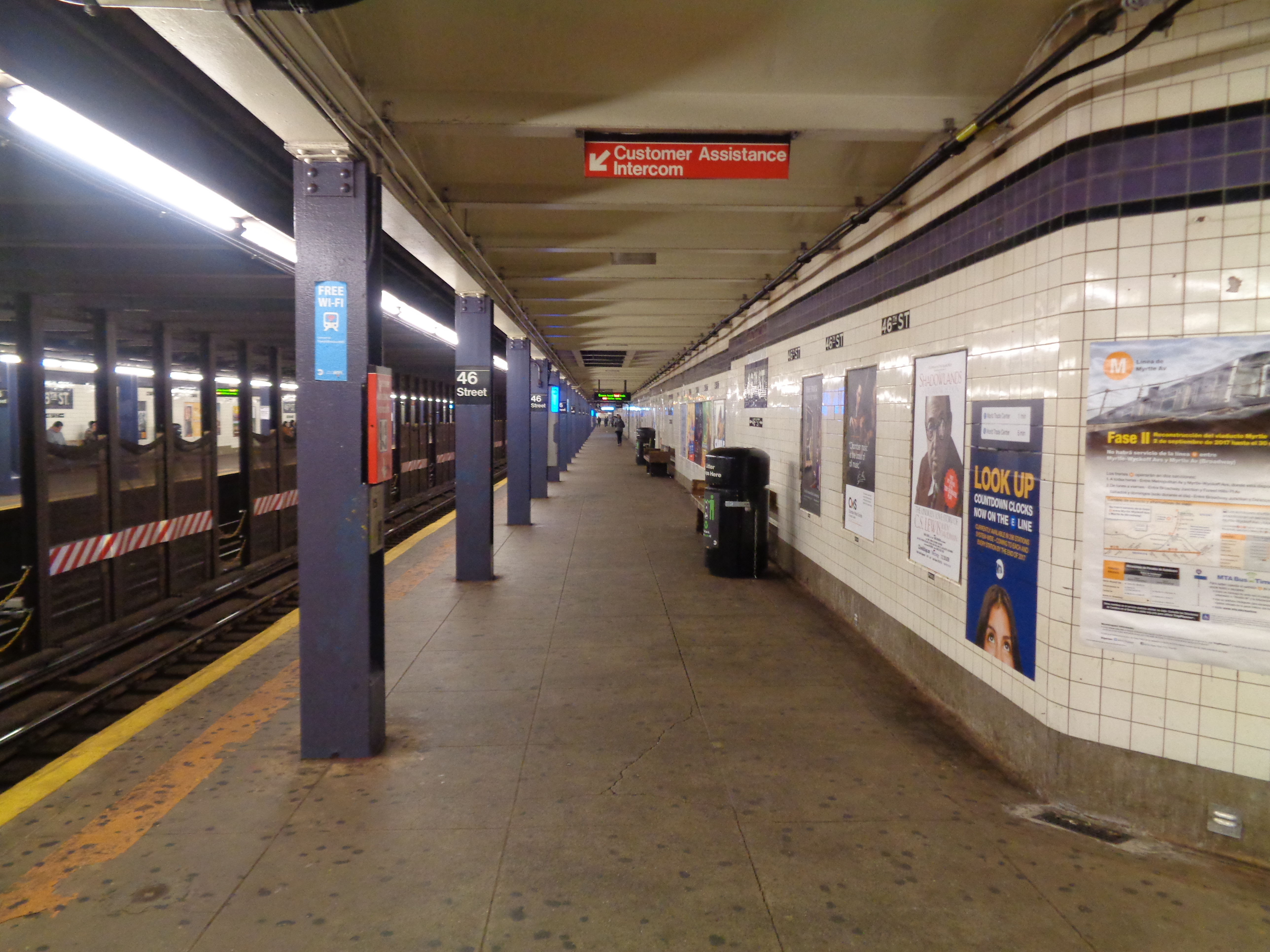 The Jamaica-bound platform of the 46th Street station of the IND Queens Boulevard Line in Astoria, Queens.